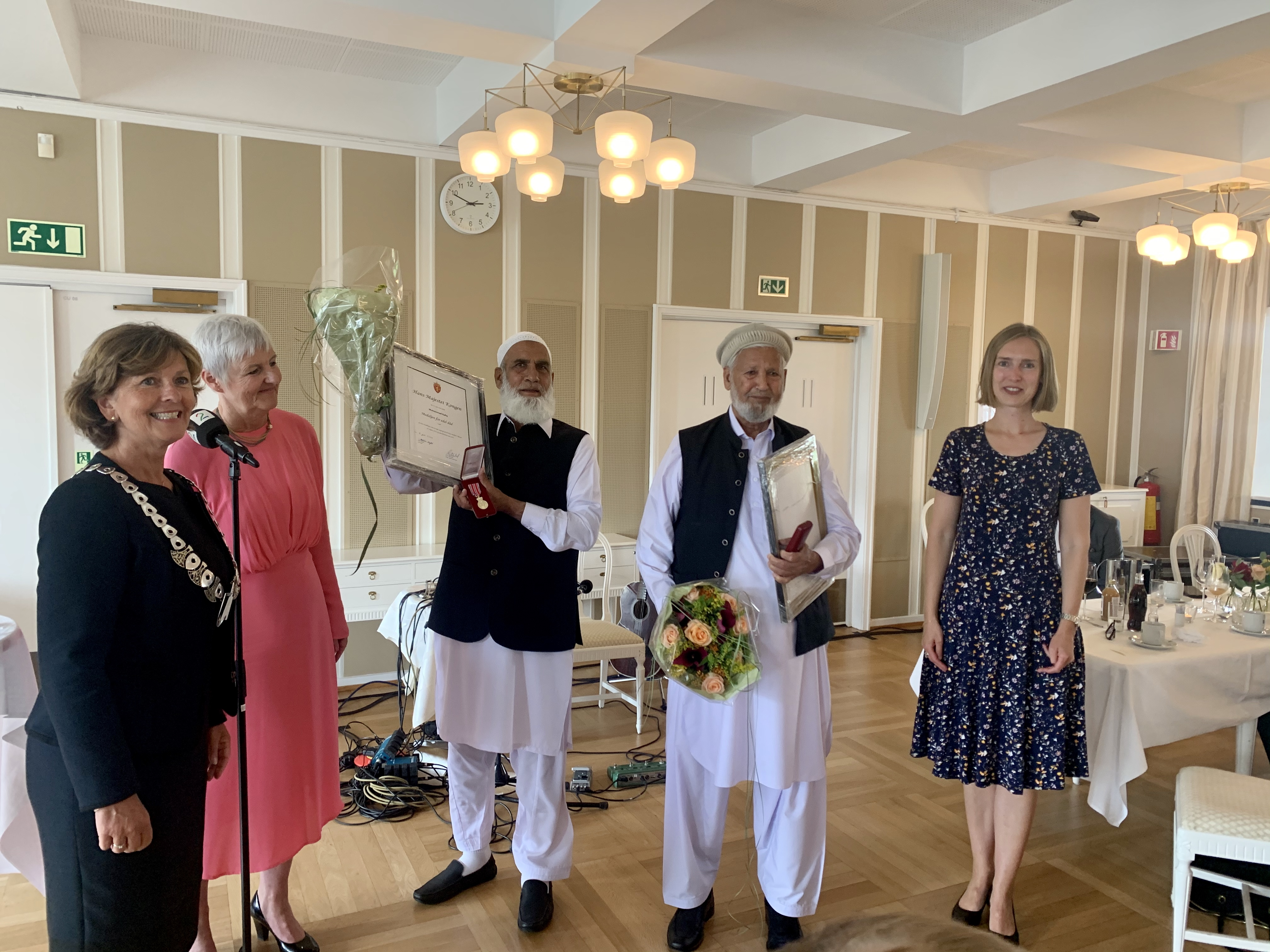 Medal for noble deed awarded Muhammad Rafiq and Mohammad Iqbal. Mr Rafiq (mid left) was awarded the Medal for noble deed in gold, and mr Iqbal (mid right) was given the medal for noble deed in silver. On behalf of the norwegian government, Minister of Trade and Industry Iselin Nybø gave the medals in a sermony in Bærum Town Hall 10.08.2020. The medals was awarded for their actions during the attack on the Al-Noor Mosque on August 10, 2019. Persons in image is from left Mayor in Bærum Lisbeth Hammer Krogh county governor of Oslo and Viken Valgerd Svarstad Haugland Muhammad Rafiq, Mohammad Iqbal, Minister of Trade and Industry Iselin Nybø